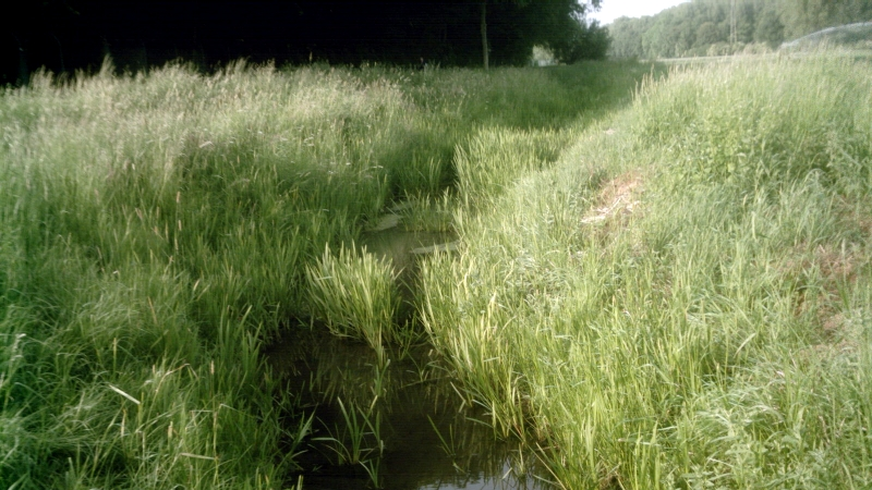 Lockgraben Creek in Lockhütte, Mönchengladbach, Germany